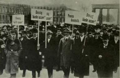 Demonstration in Berlin against the Treaty of Versailles provisions regarding Posen and Danzig, 1919